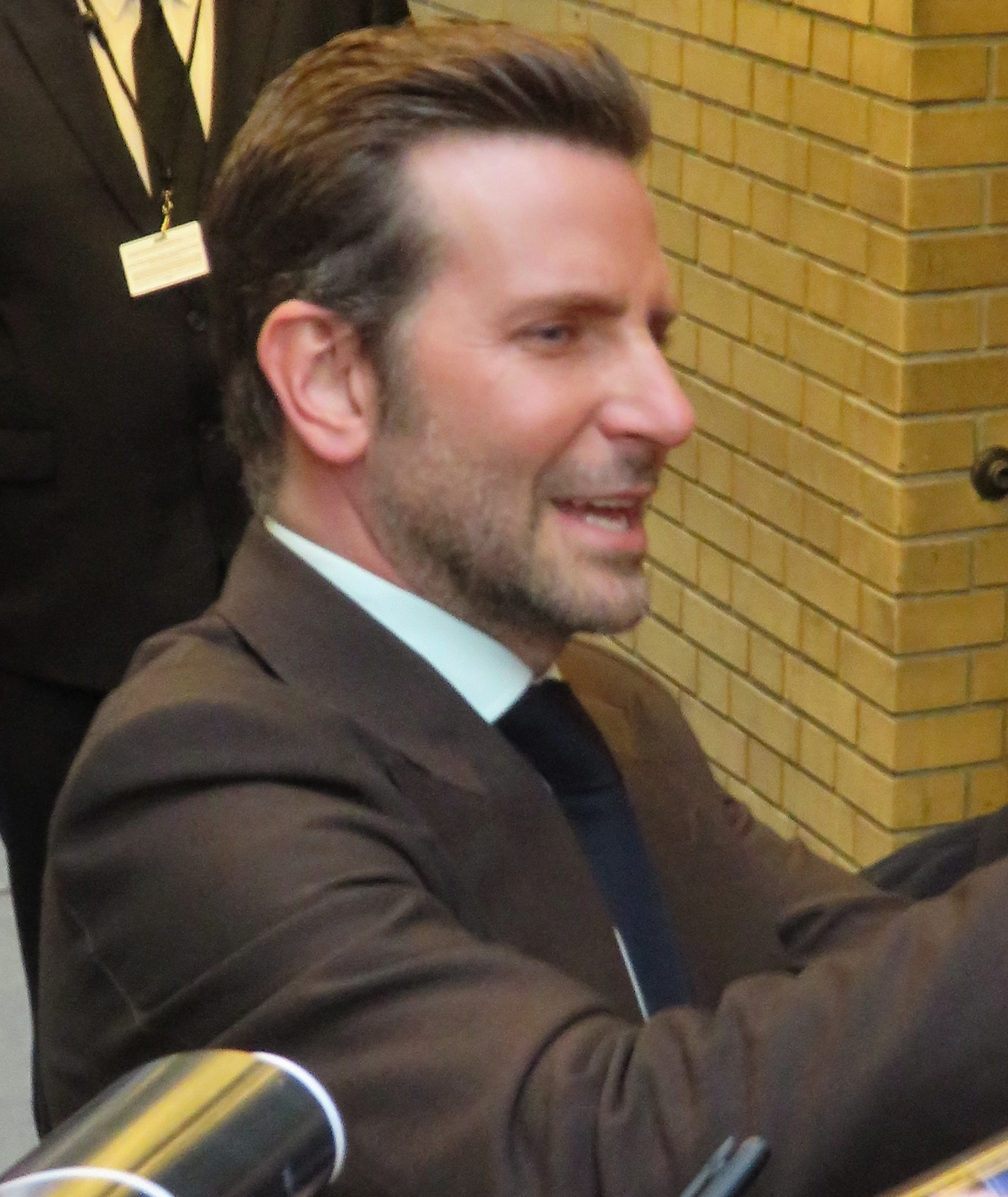 Bradley Cooper at the premiere of A Star Is Born, 2018 Toronto Film Festival